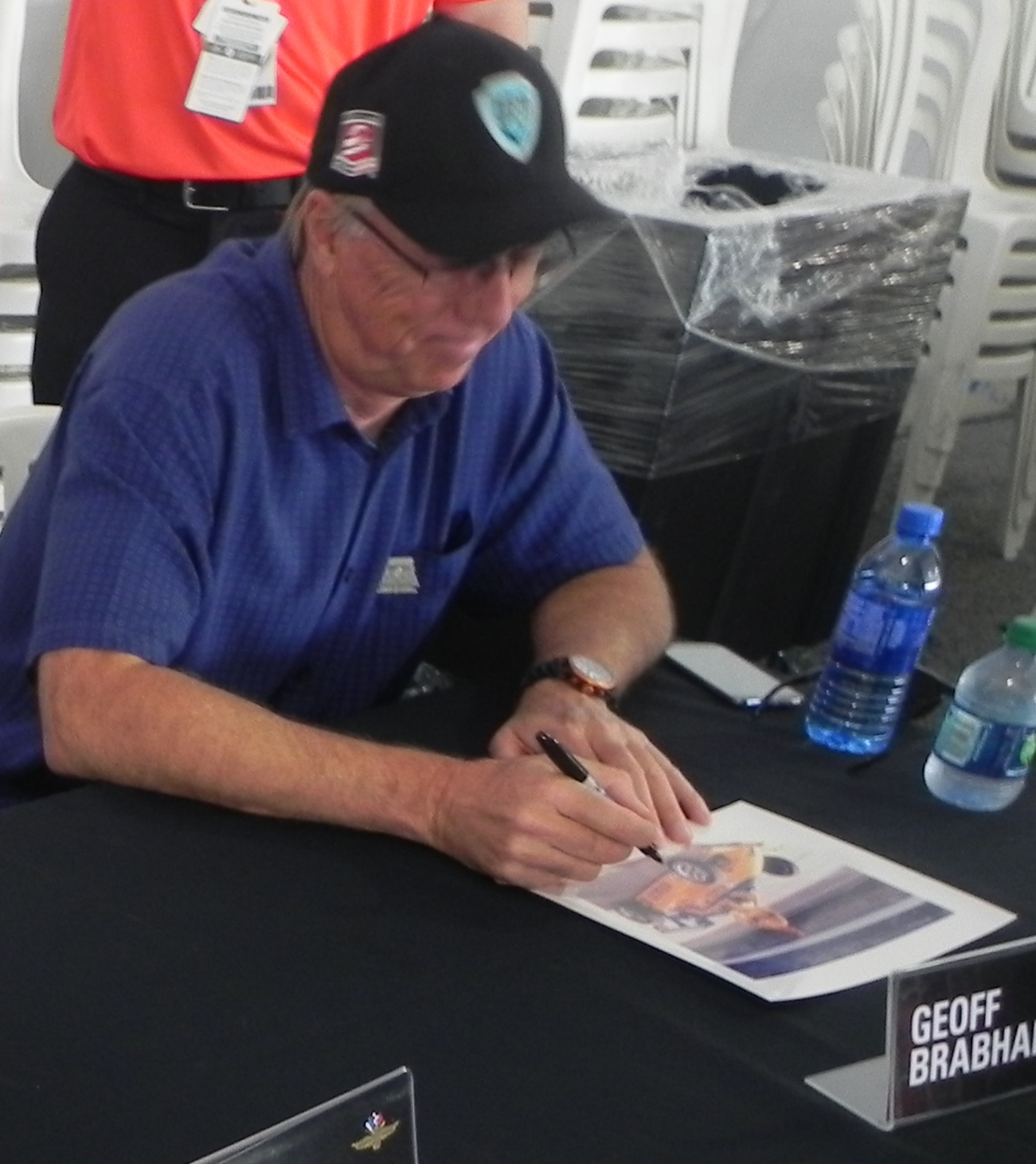 Indy500 driver Geoff Brabham at the 2014 Indianapolis 500.